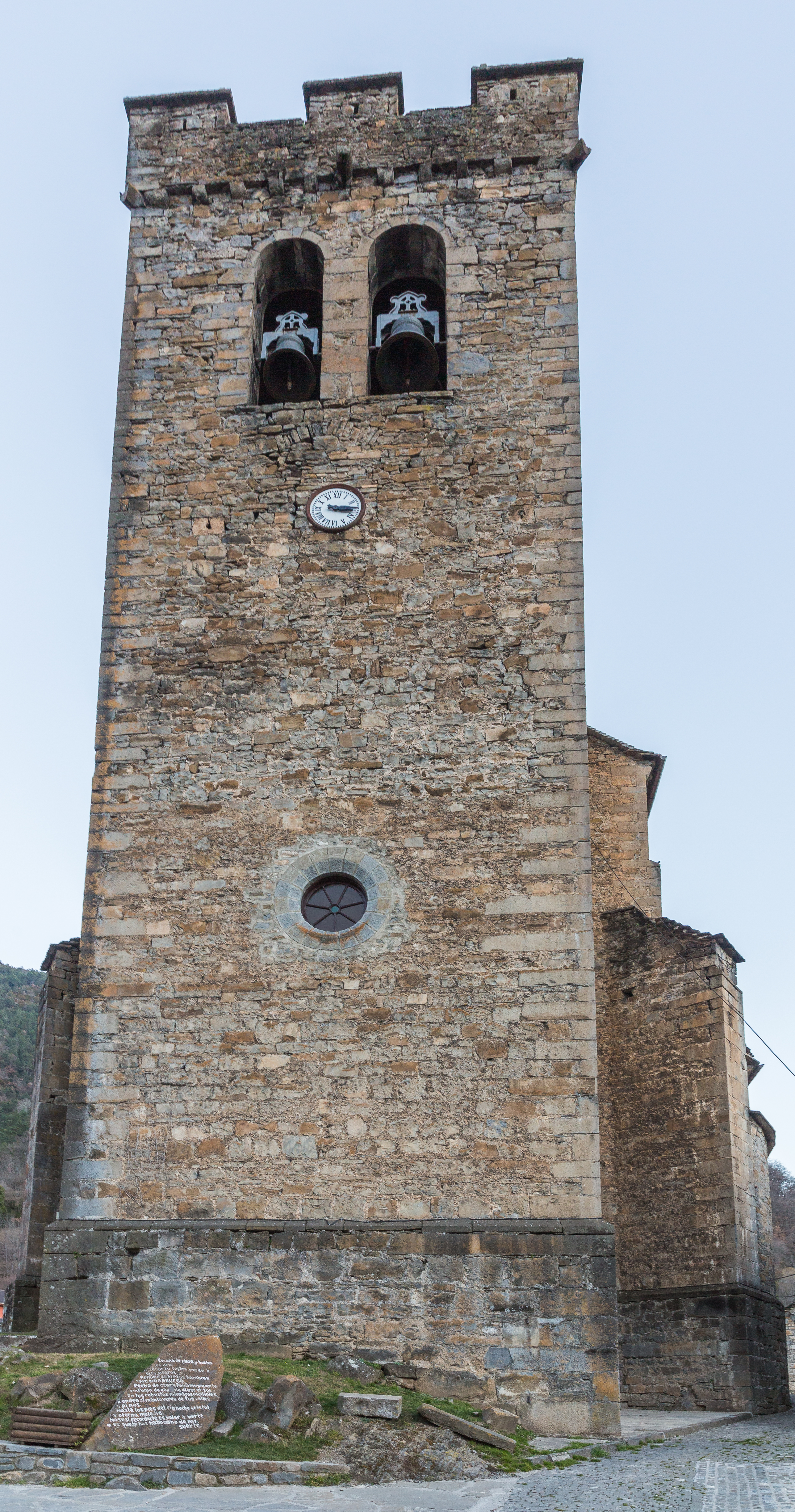 St Peter church, Broto, Huesca, Spain